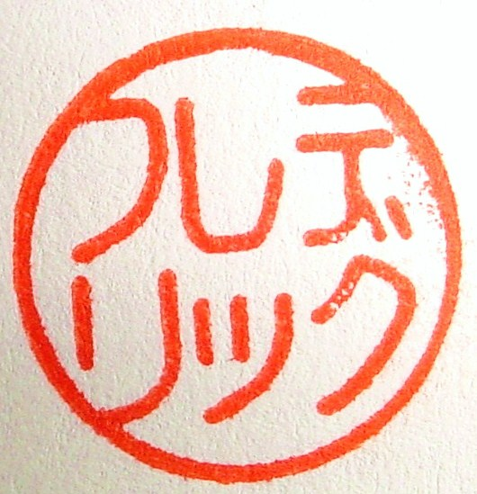 japanese sceal wrote in katakana caracters